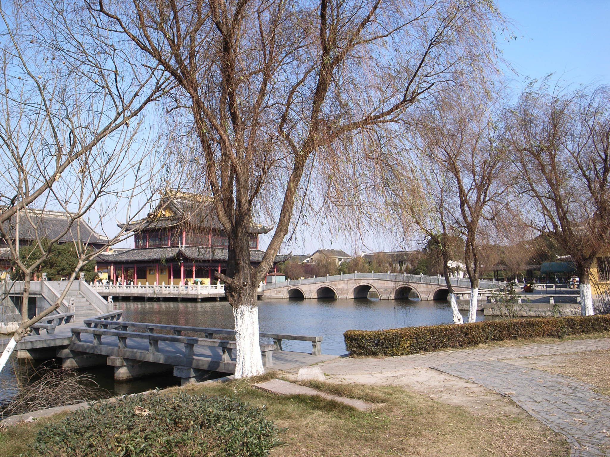 A temple in Zhouzhuang, a famous historic town in China.